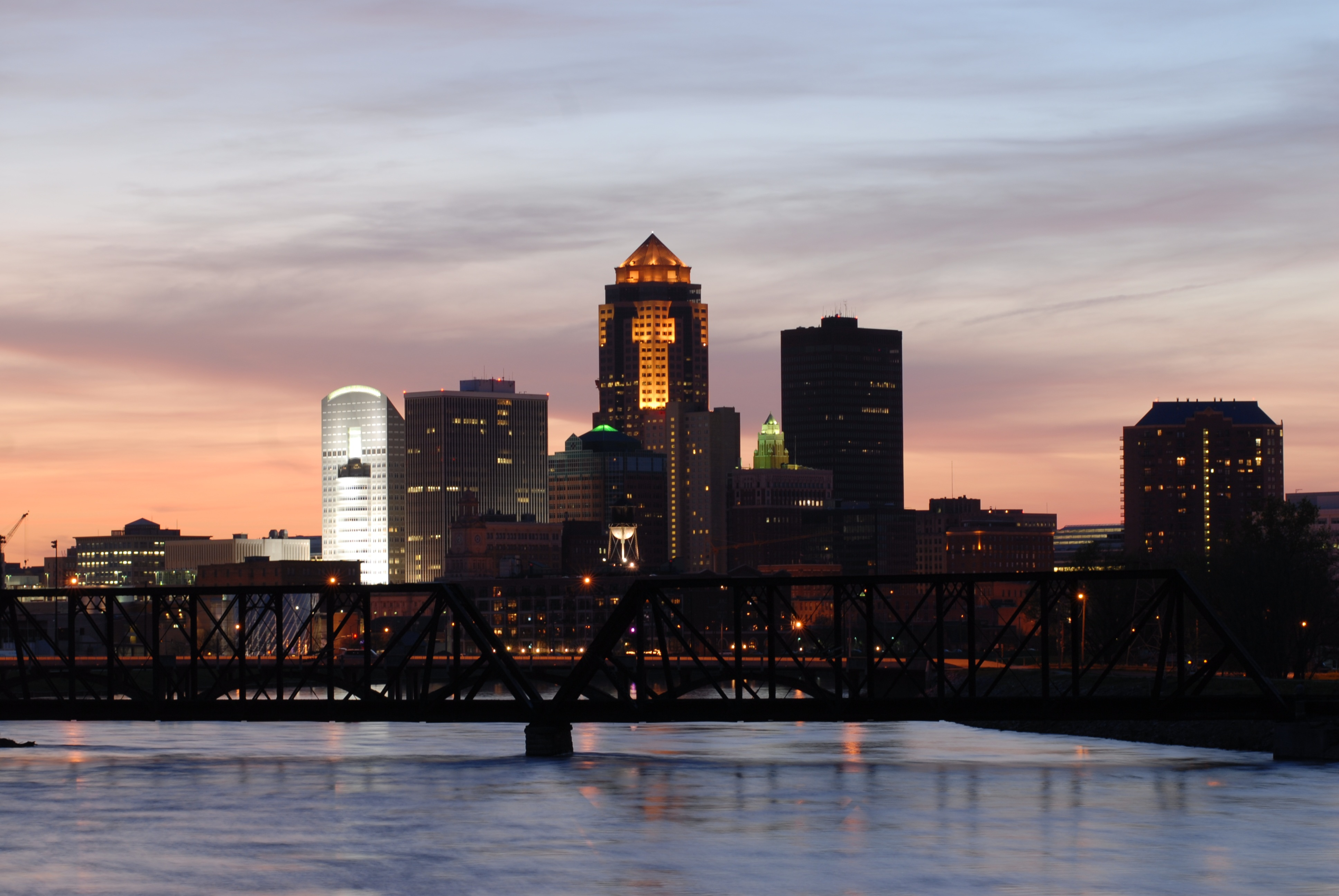 Des Moines, Iowa, USA Skyline at Sundown.